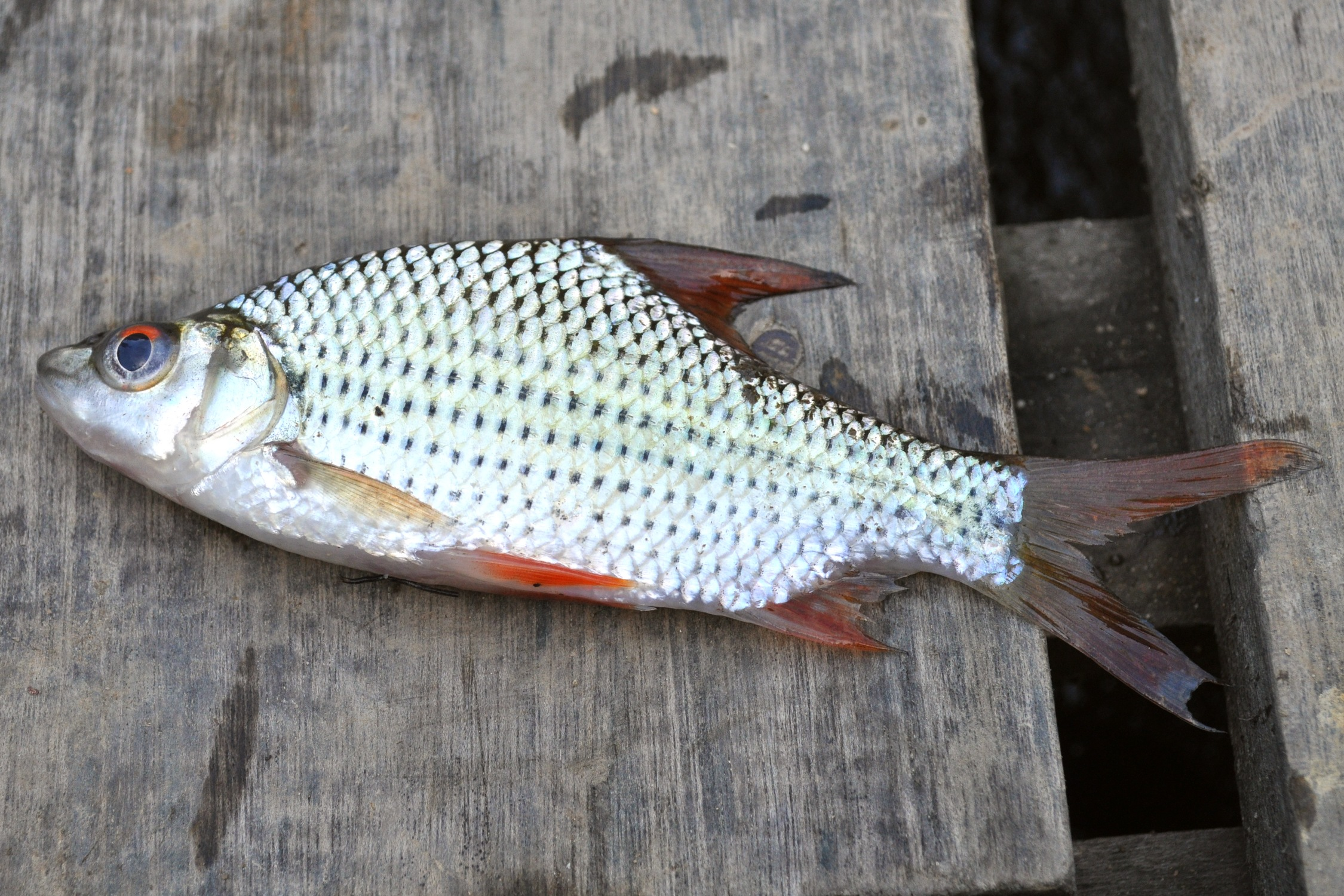 Beardless barb, Anematichthys apogon, ca. 11cm SL (standard length). From West Kalimantan, Indonesia.